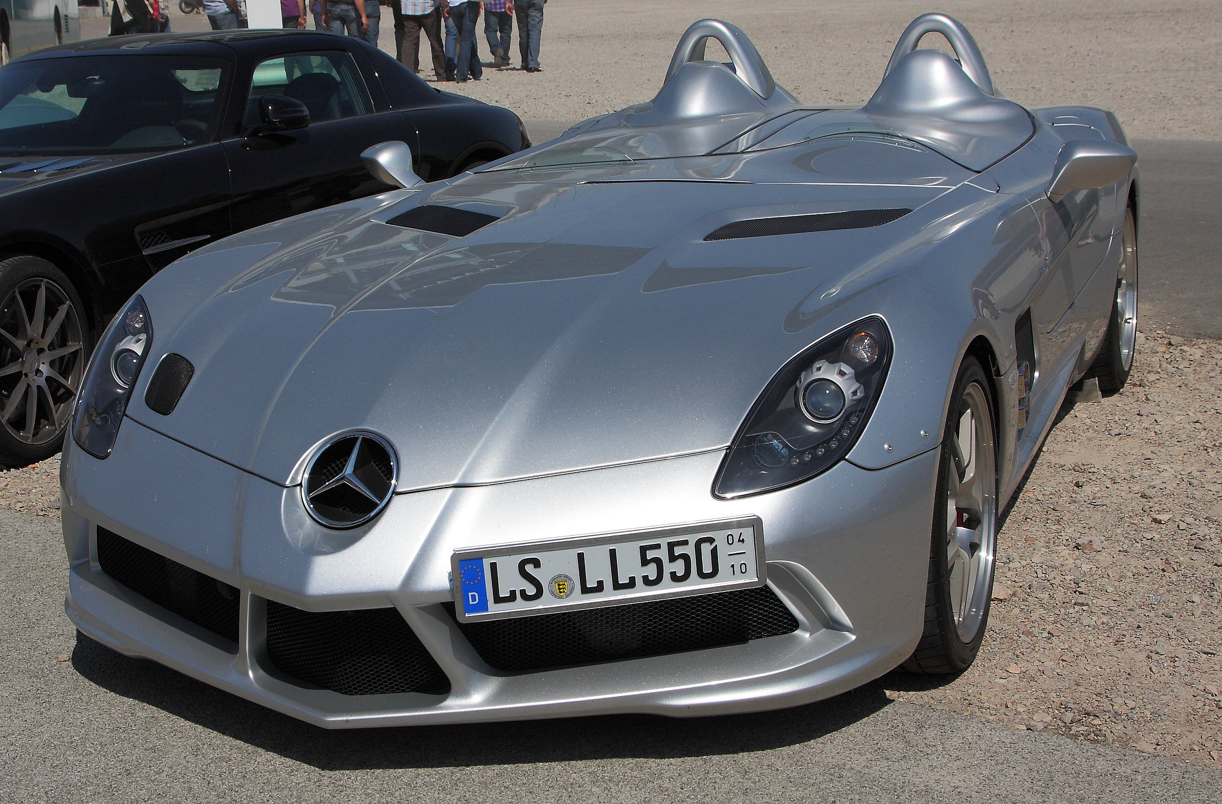 Mercedes-Benz SLR Stirling Moss